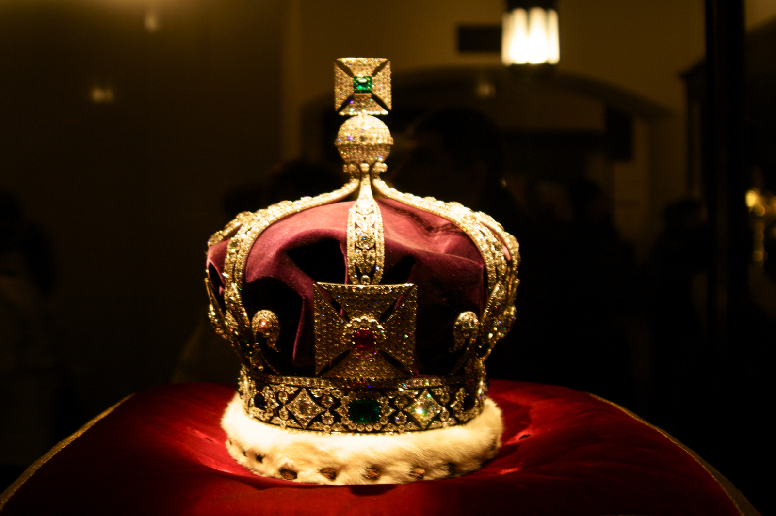 The Imperial Crown of India